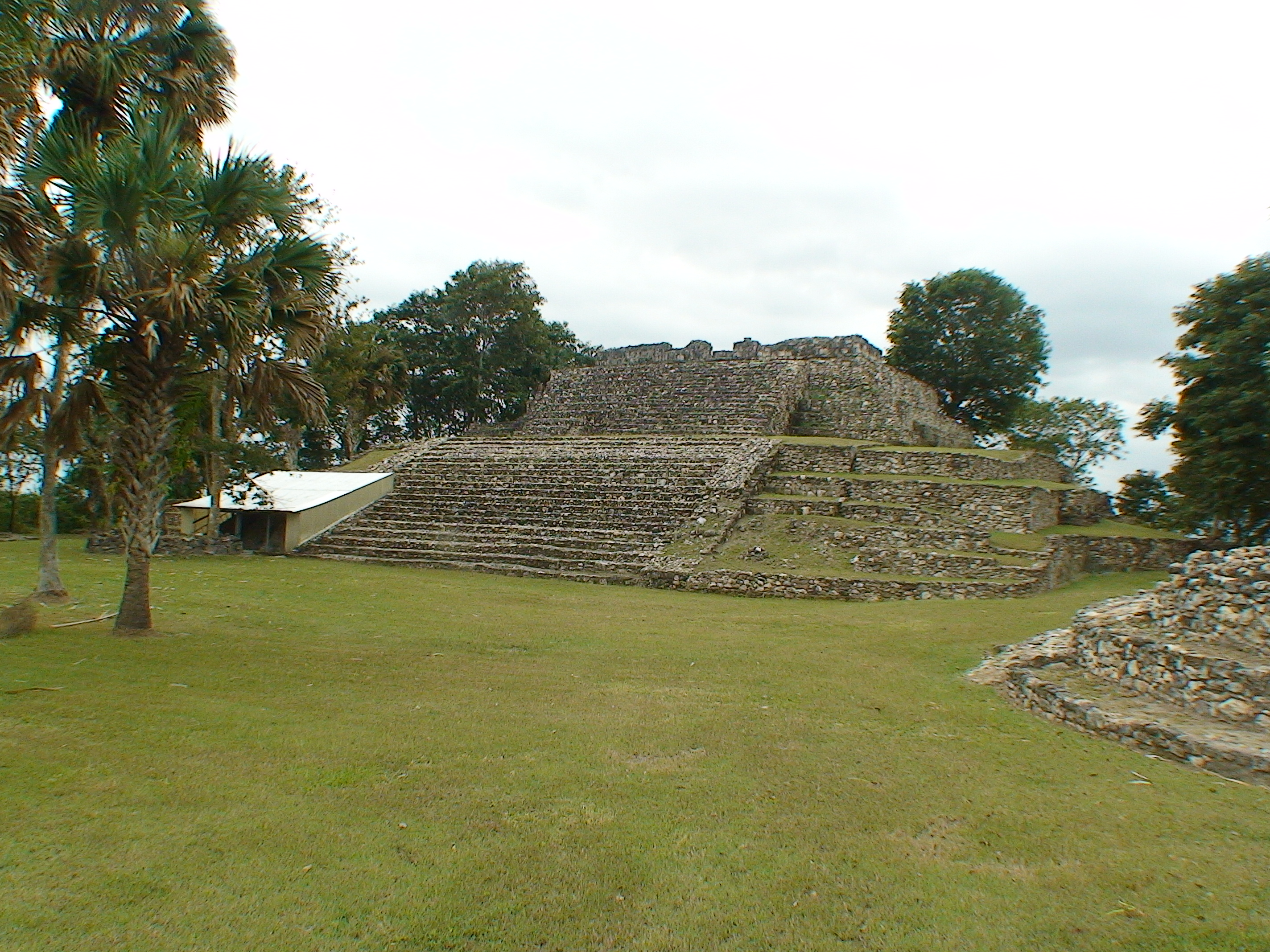 El £Tigre / Itzamkanak, Tabasco, Mexico: main pyramid